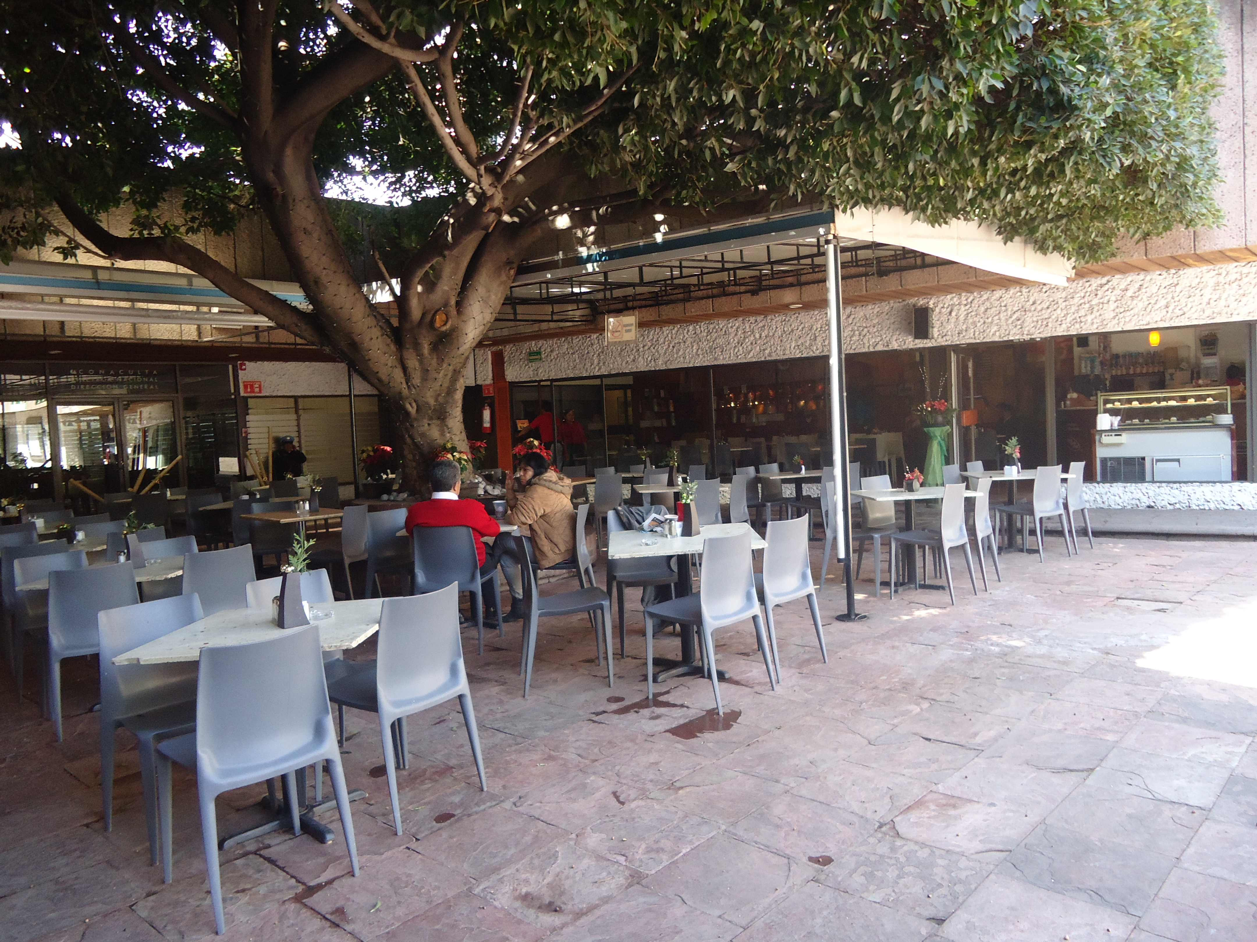 Cineteca Nacional, Mexico-City. restaurant